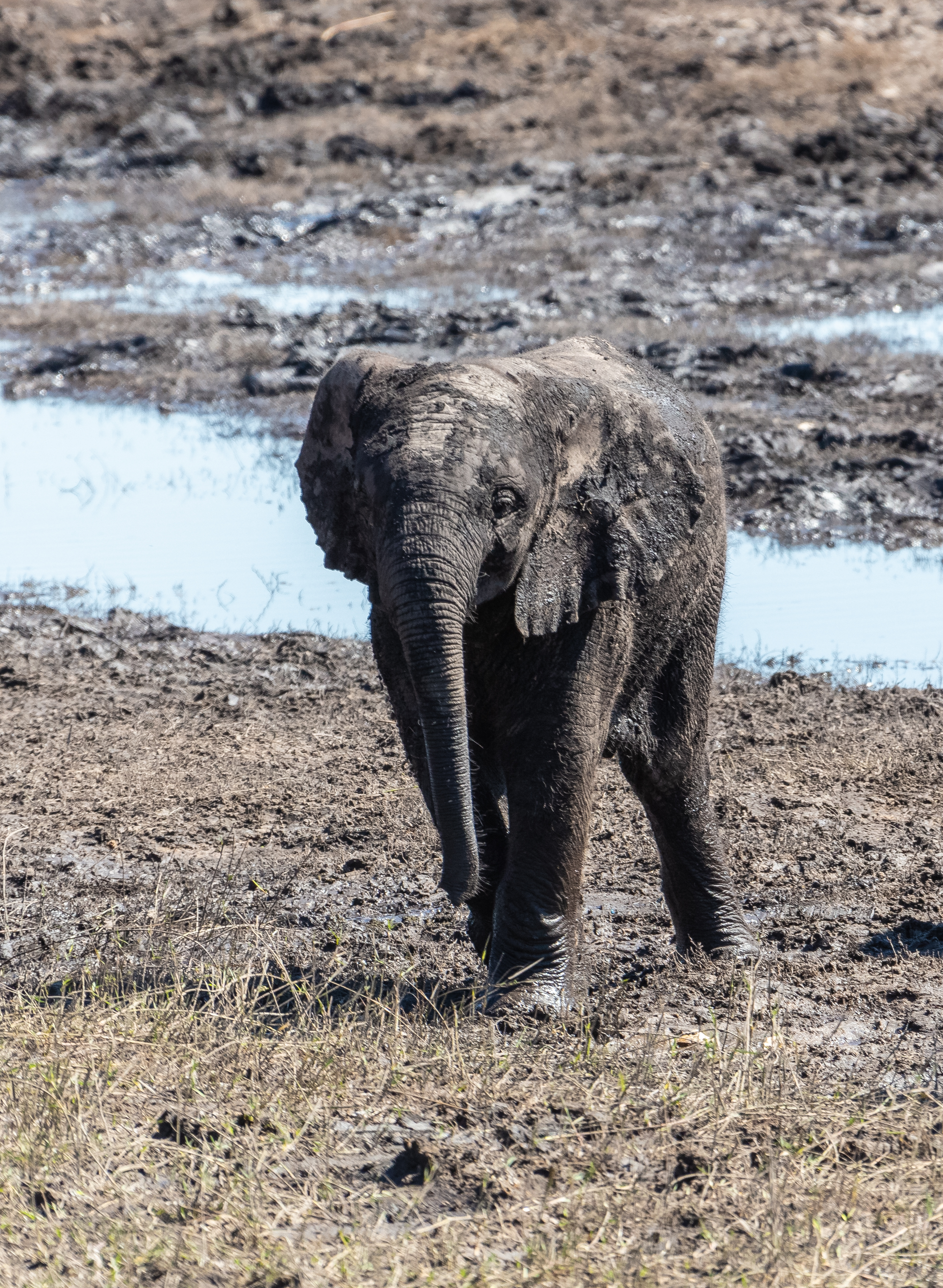 Baby African bush elephant (Loxodonta africana), Chobe National Park, Botsuana